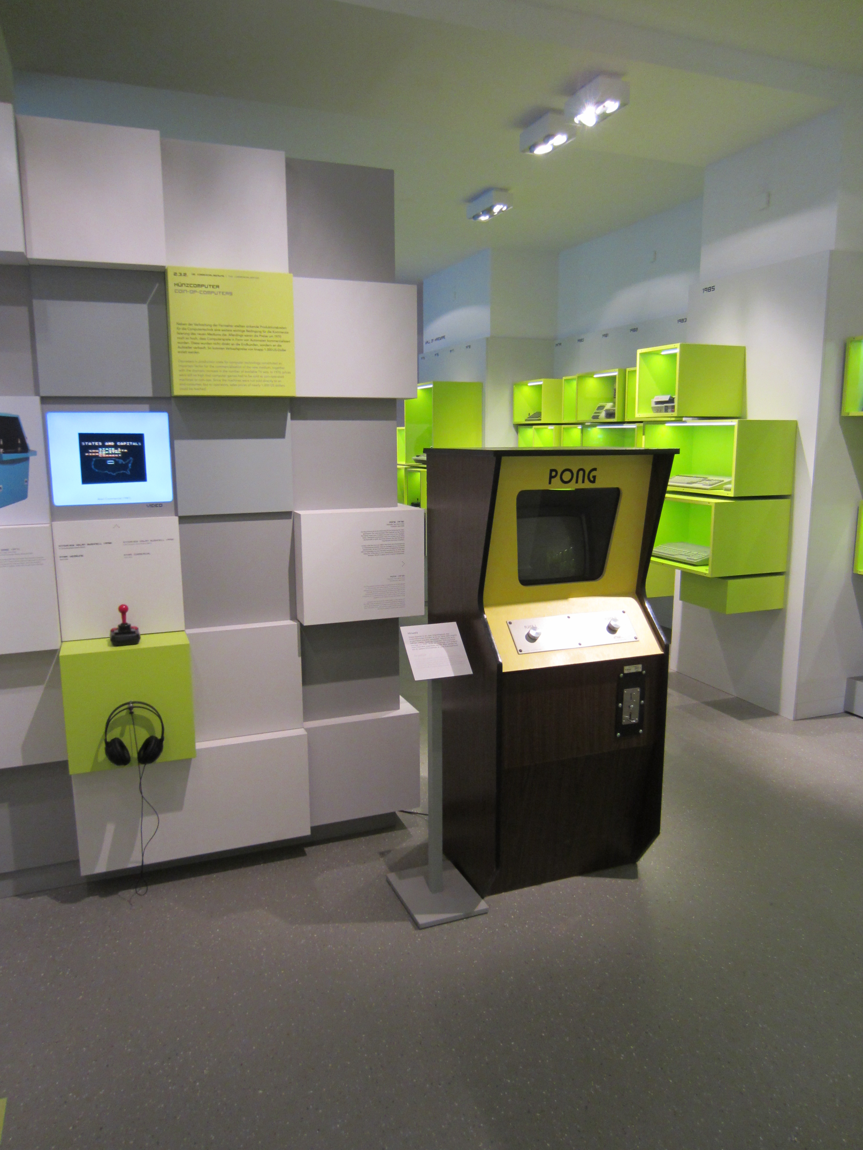 Atari Pong arcade machine in the "Computerspielemuseum" in Berlin